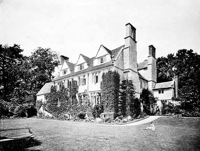 Photograph of Garsington Manor, Oxfordshire.